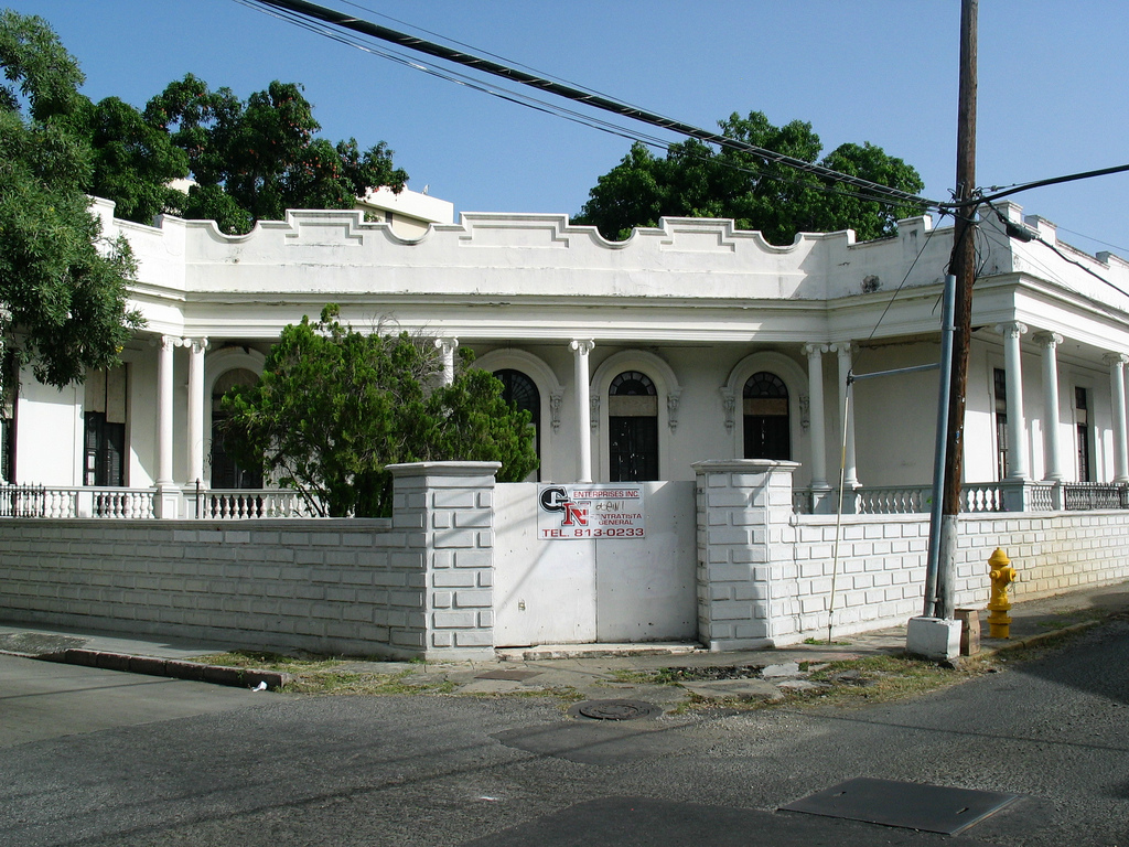 Casa Oppenheimer, a 1913 residence within the Ponce Historic Zone, in Barrio Cuarto of Ponce, Puerto Rico. It is on the National Register of Historic Places.